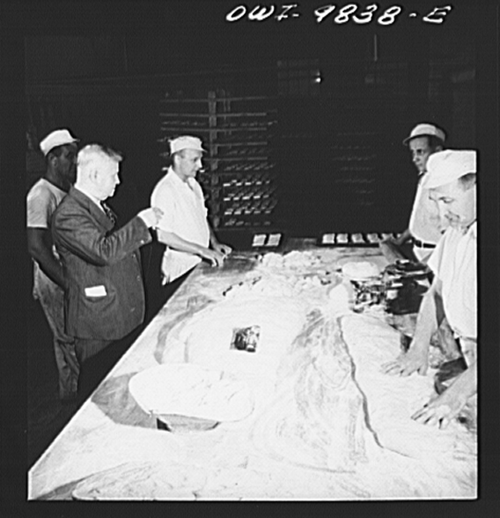 Title: Brooklyn, New York. A section of the city largely inhabited by Finnish-Americans, near Thirty-ninth Street and Eighth Avenue, known as Finn Town. Finnish bakery. It is a cooperative, and many of the workers are Finnish-born